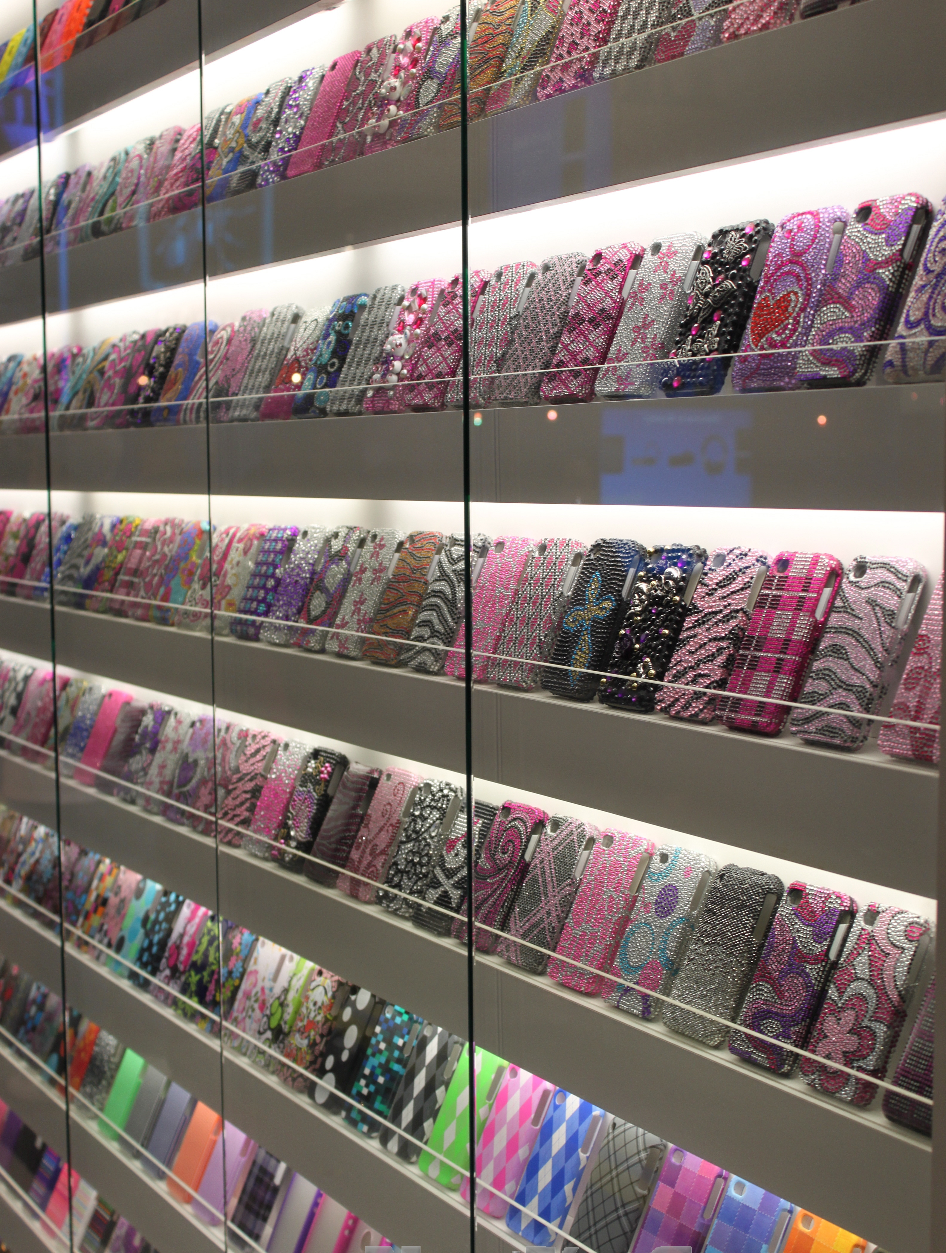 2010 photo of a display of cell phone covers.